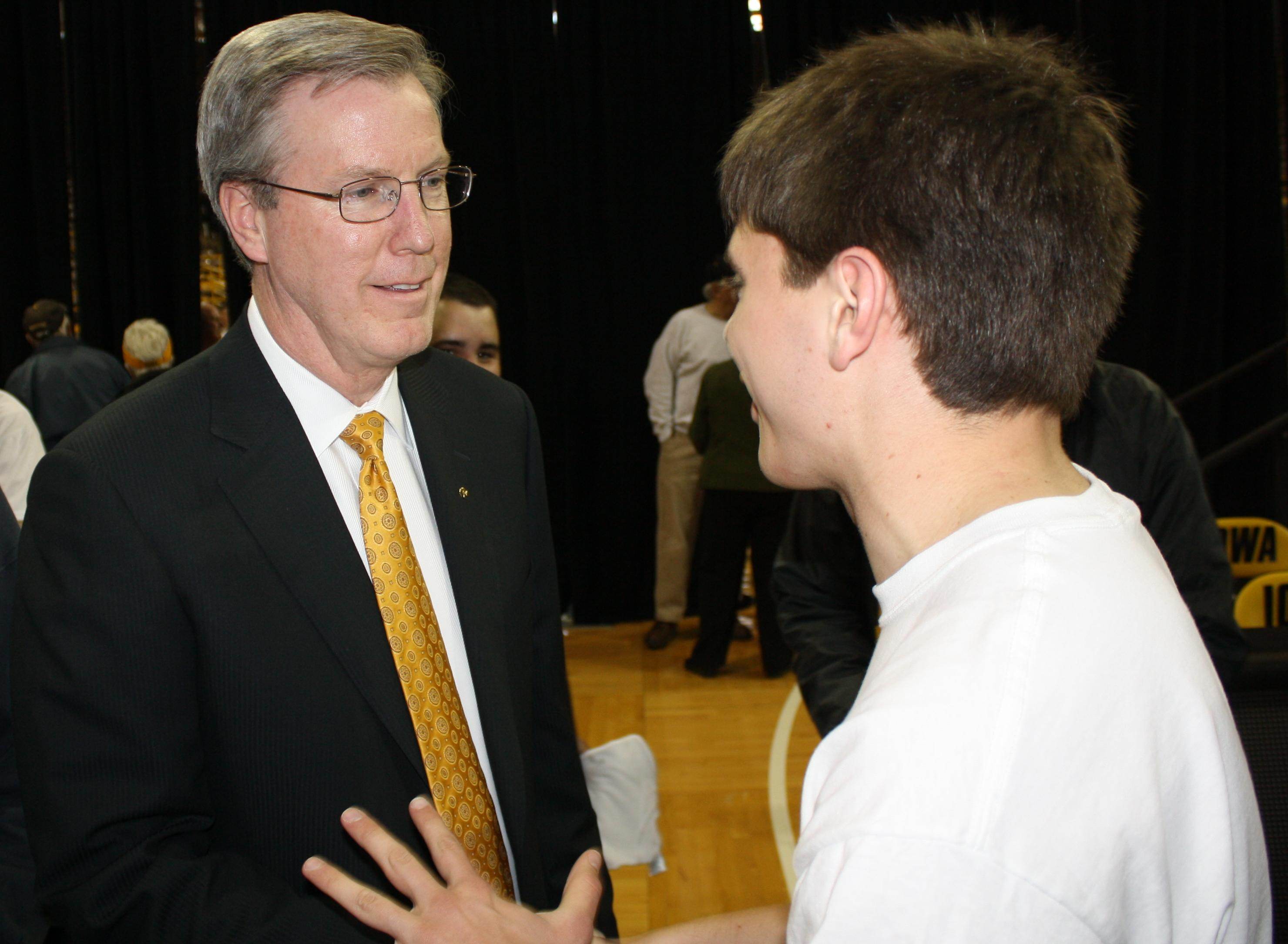 Fran McCaffery talks with Iowa student Alex Solsma after a ceremony where he was introduced as the new head basketball coach at The University of Iowa.